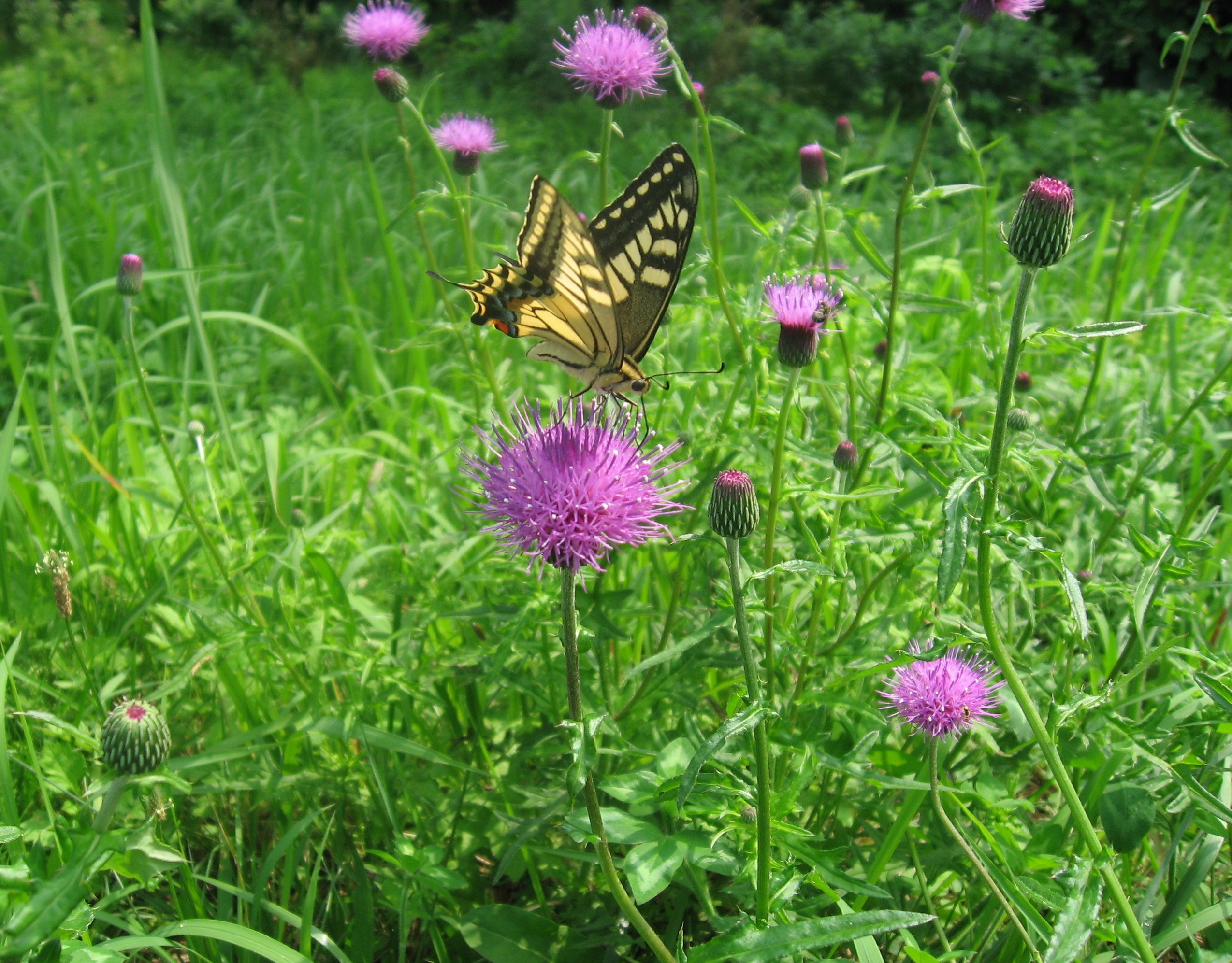 Cirsium japonicum, Aizu area, Fukushima pref., Japan